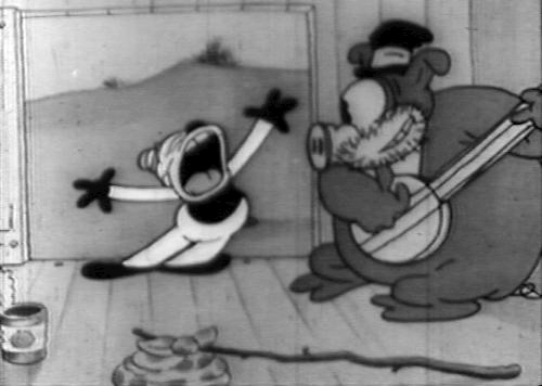 Scene from the 1930 cartoon Box Car Blues. Bosko and his friend the banjo playing pig make music while in the boxcar.